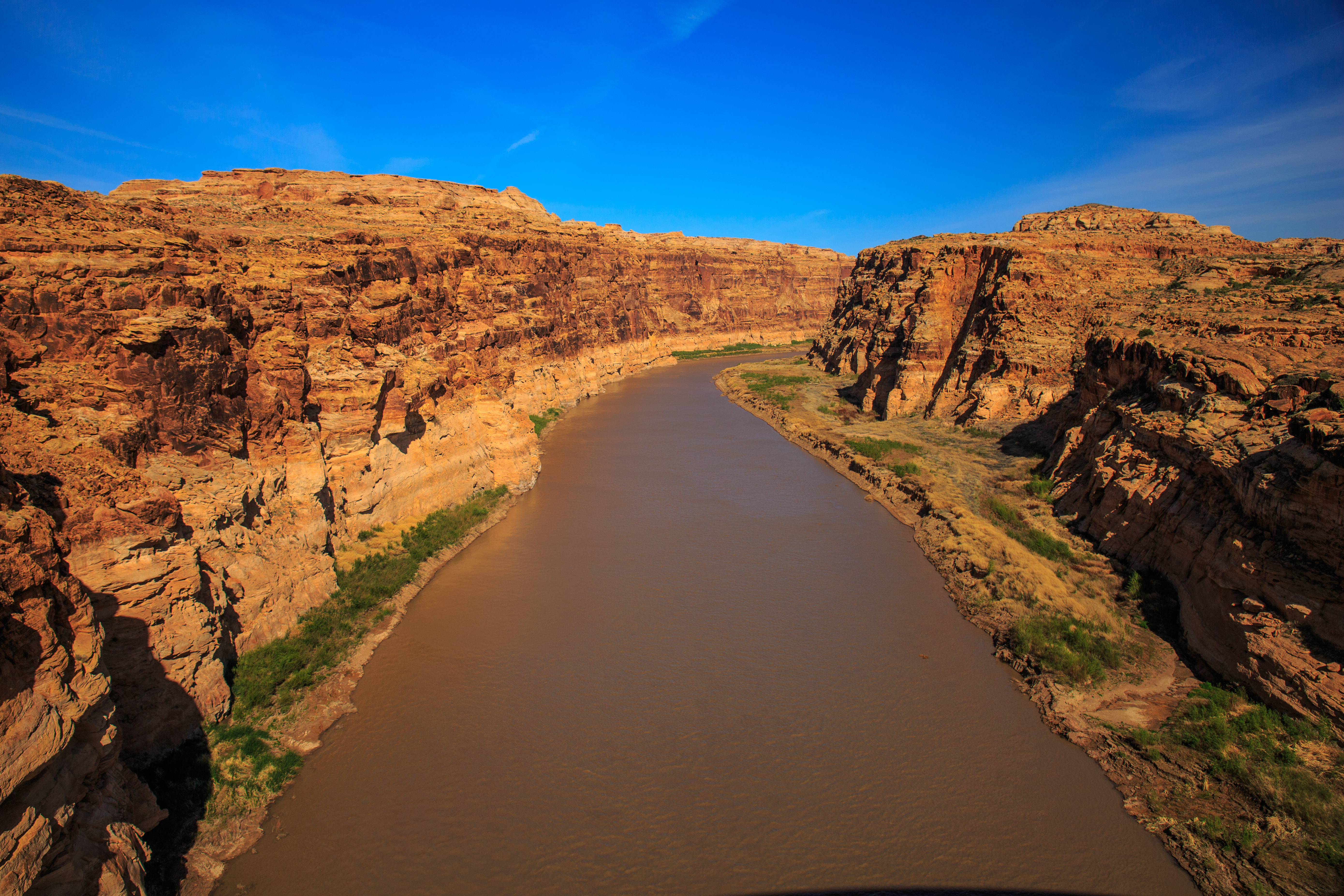 along Hwy 95 in SE Utah...the Colorado River...